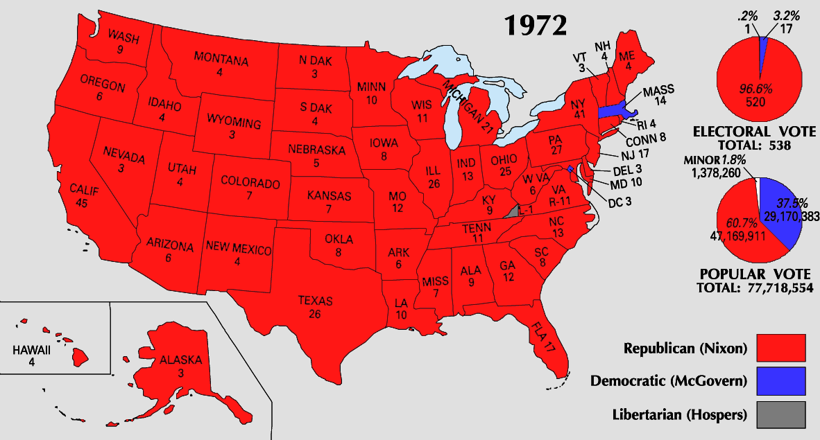 1972 Electoral College Map